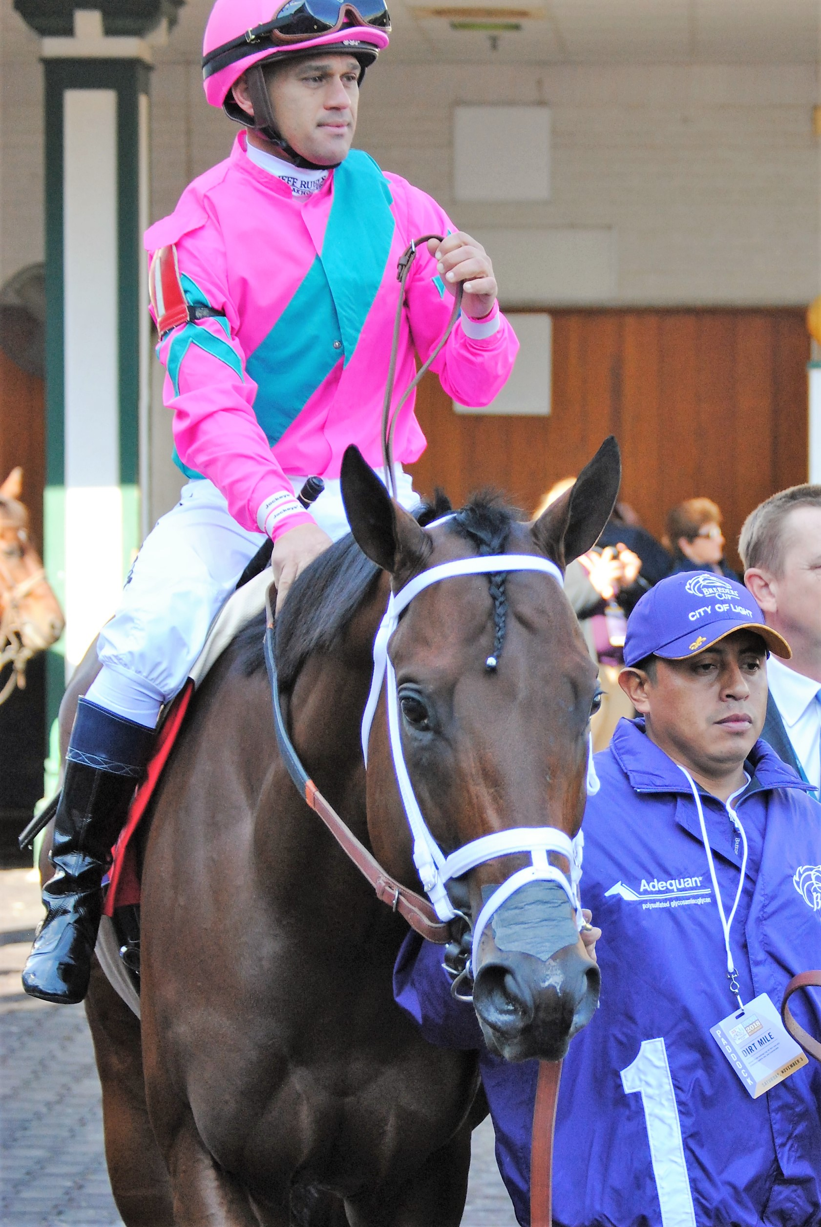 City of Light and Javier Castellano prior to winning the 2018 Breeders' Cup Dirt Mile